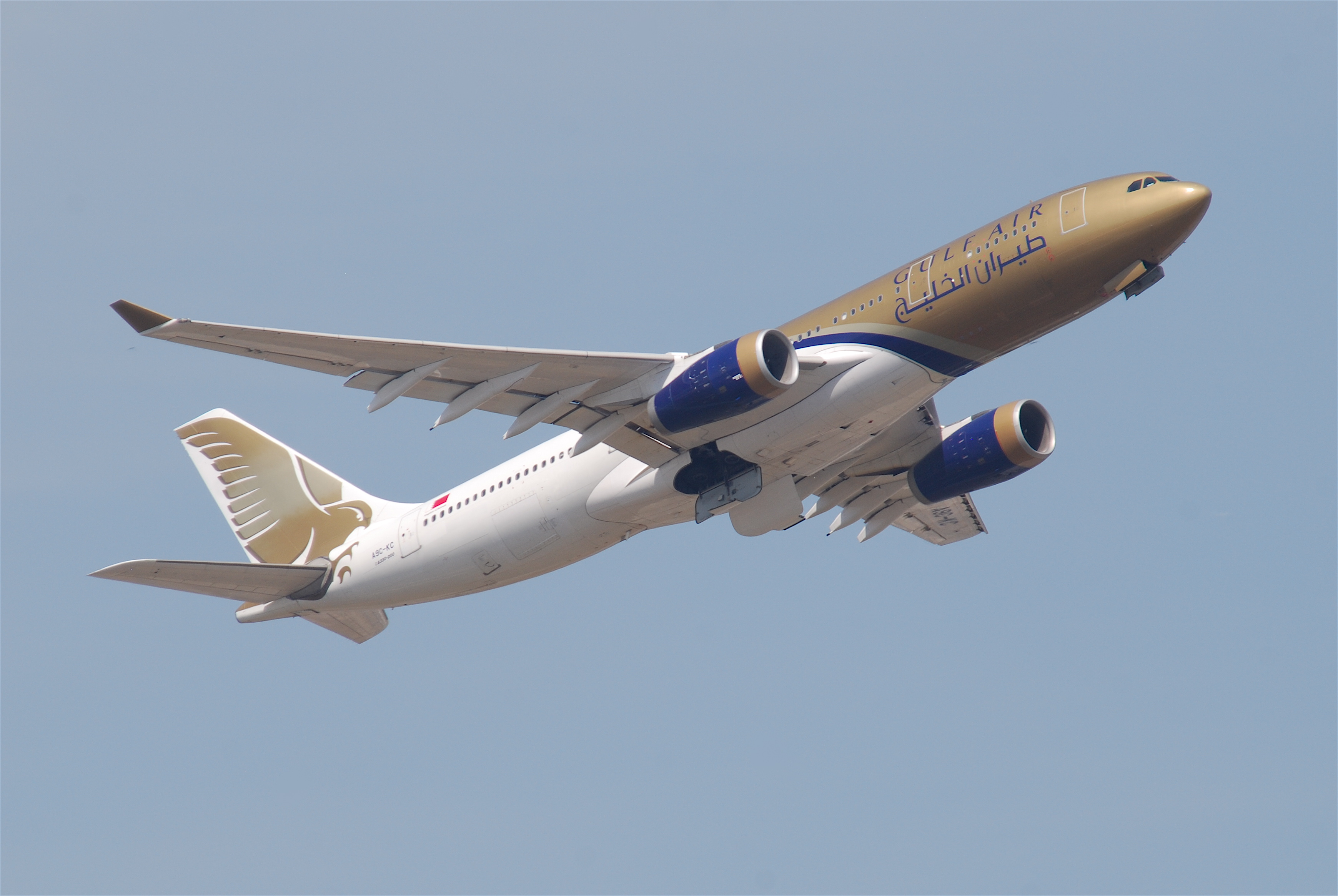 Gulf Air Airbus A330-200; A9C-KC@FRA;09.07.2010/581fq